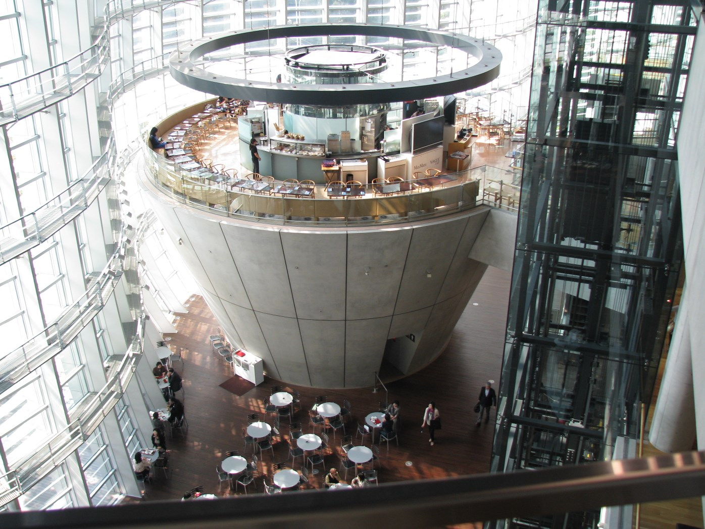 National Art Center Tokyo, inside